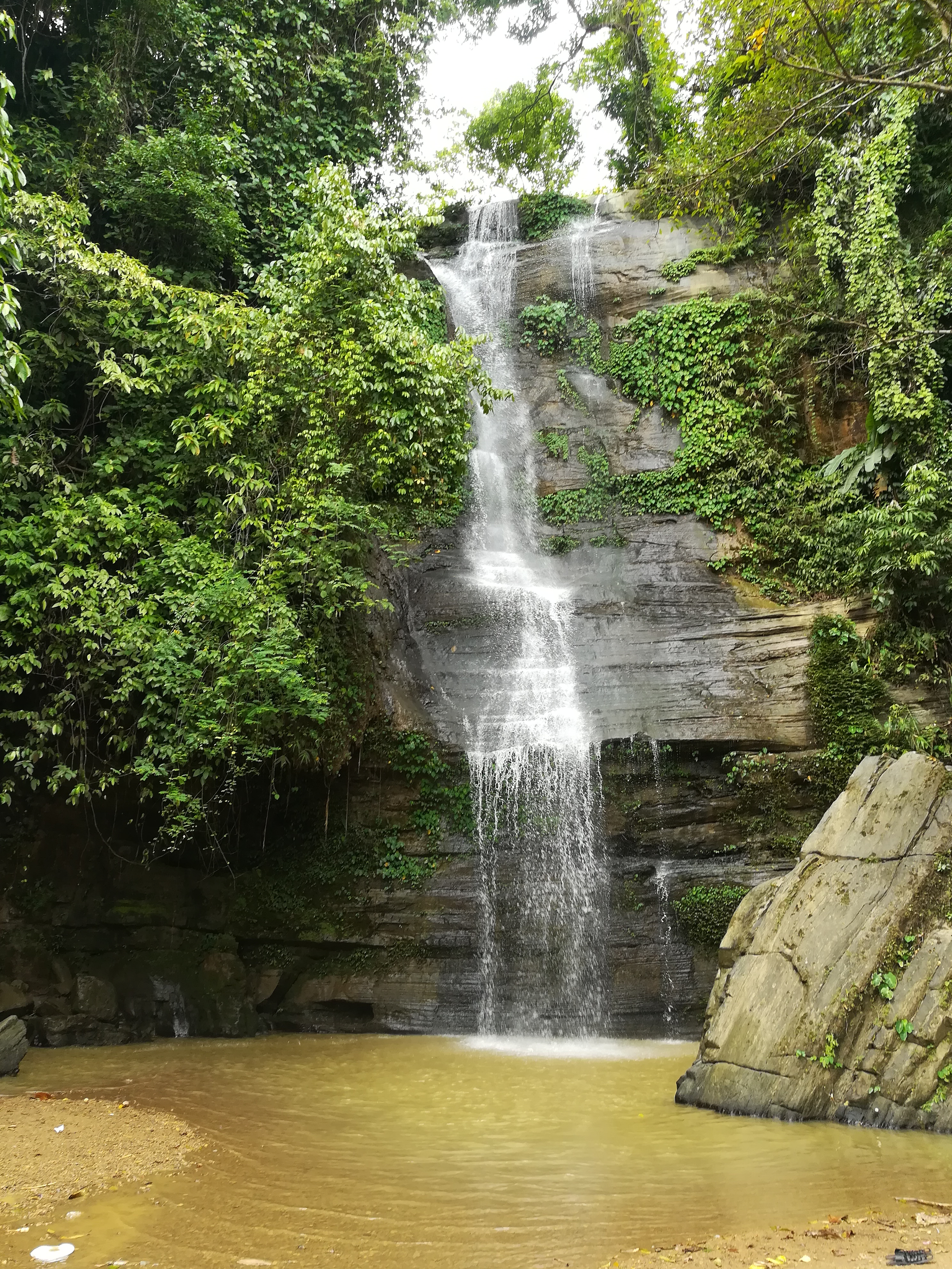 Hazachora Waterfall